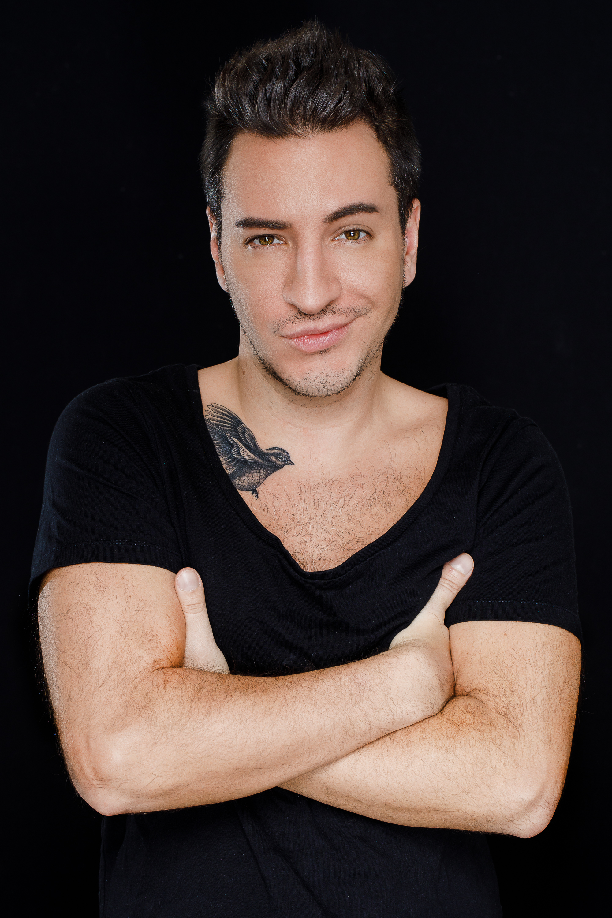 Portrait of actor/musician Adam Barta done by Bret Josephs